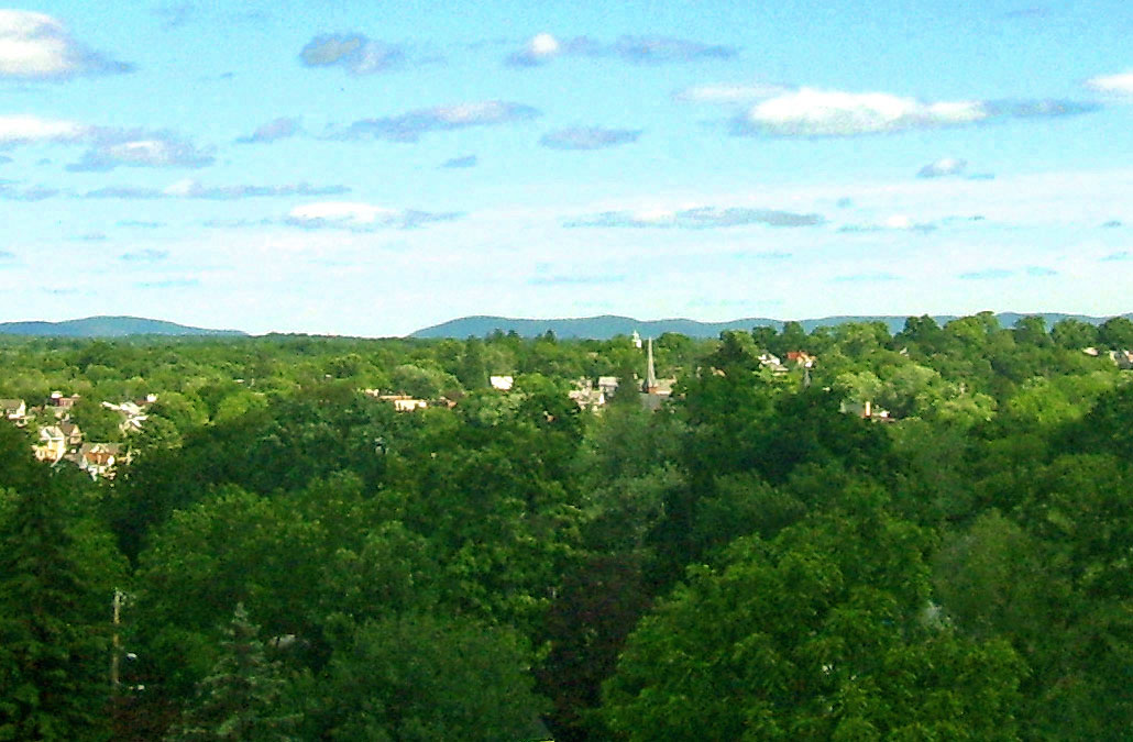 Photographed by Daniel Case 2006-06-11 from some newly-built lots on Overlook Drive near the west end of town, looking out to the southeast